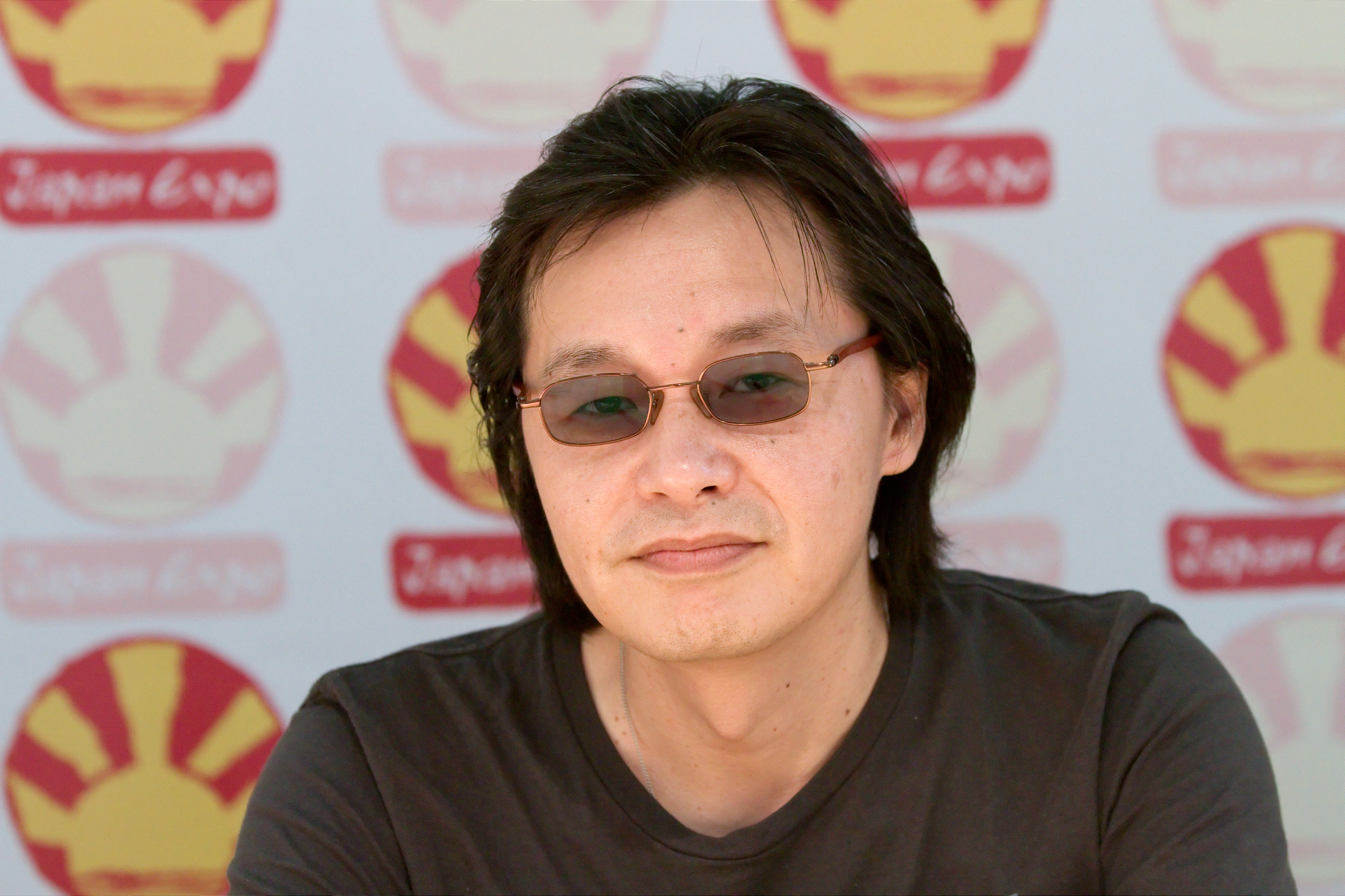 Autograph session with Tsukasa Hojo at Japan Expo 2010 (Paris, France).